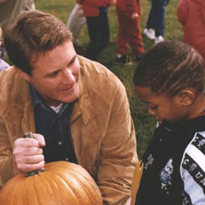 Governor Bayh visits with young Hoosiers at the opening of the new Fort Benjamin Harrison State Park in Indianapolis.